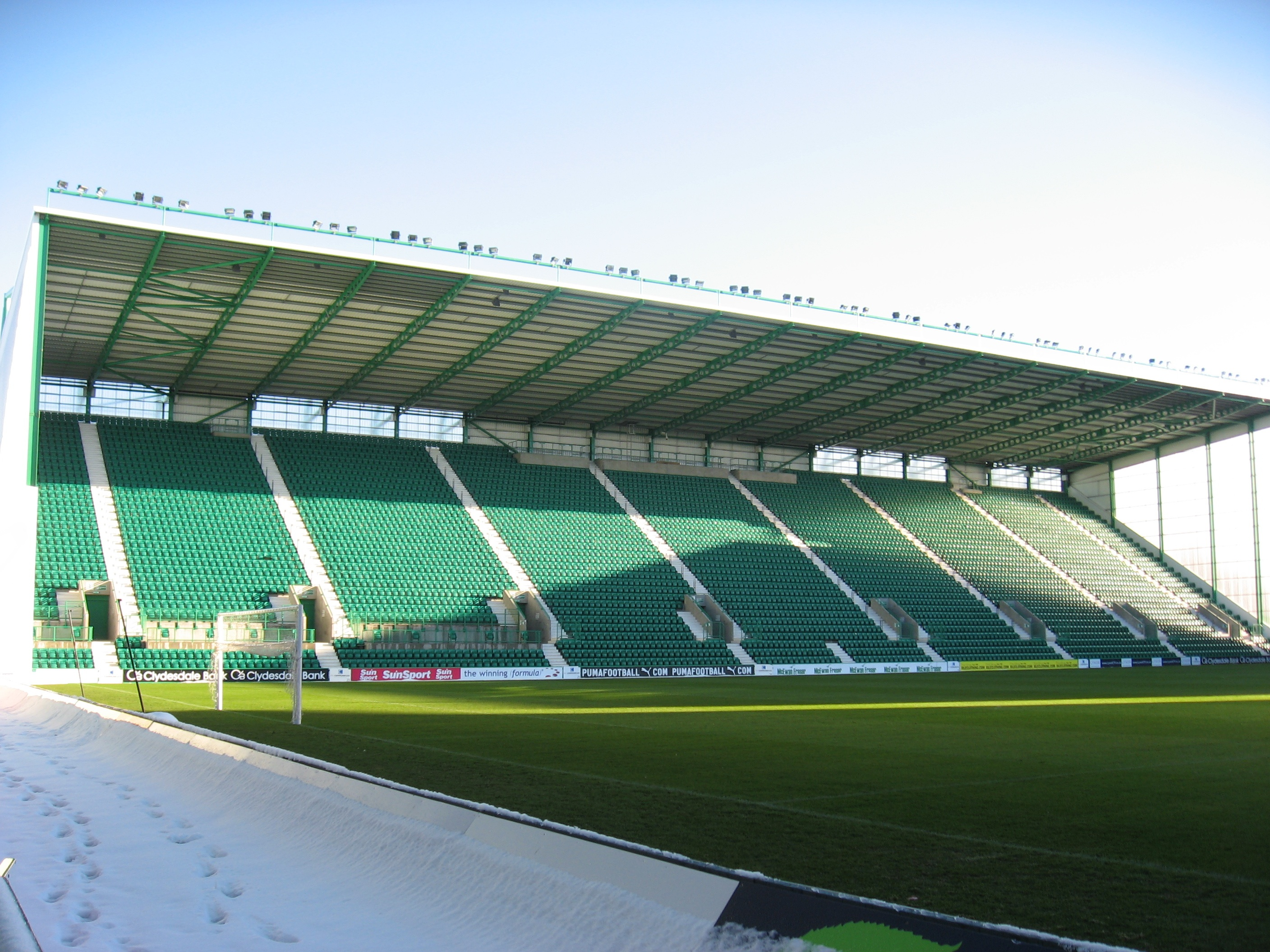 The new East Stand of Easter Road Stadium in Edinburgh: the home venue of Hibernian F.C. The stand was constructed in 2010. The picture was taken in December 2010.